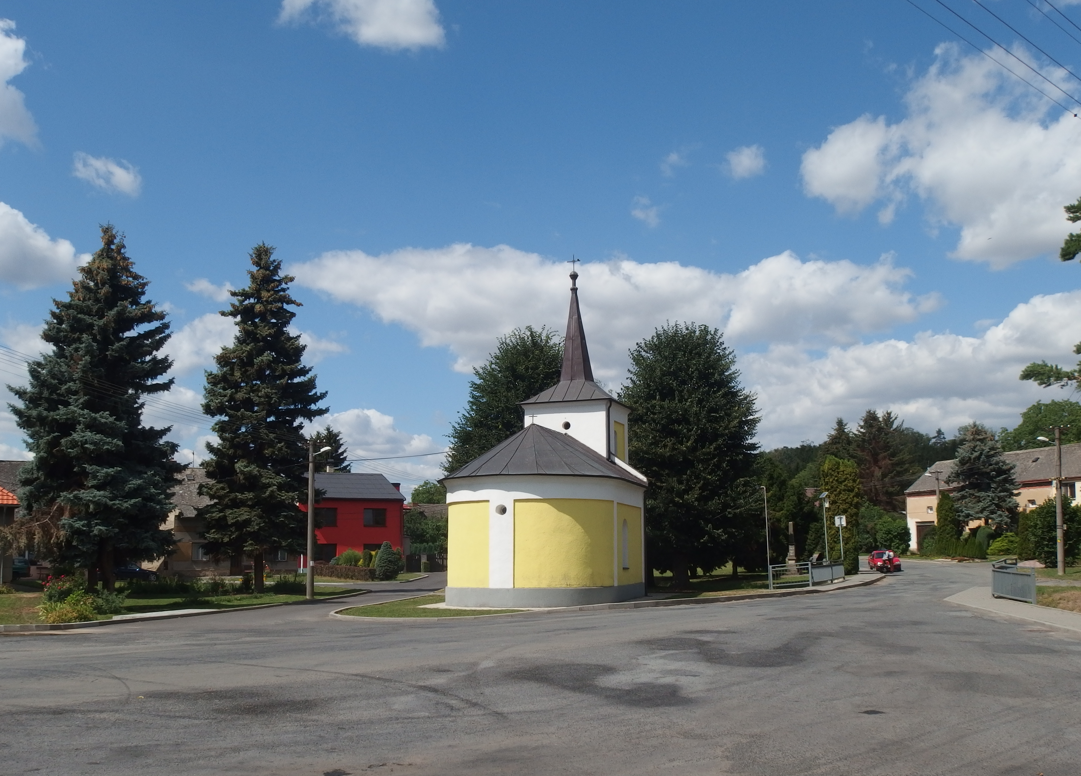 Podolí, Přerov District, Czech Republic.